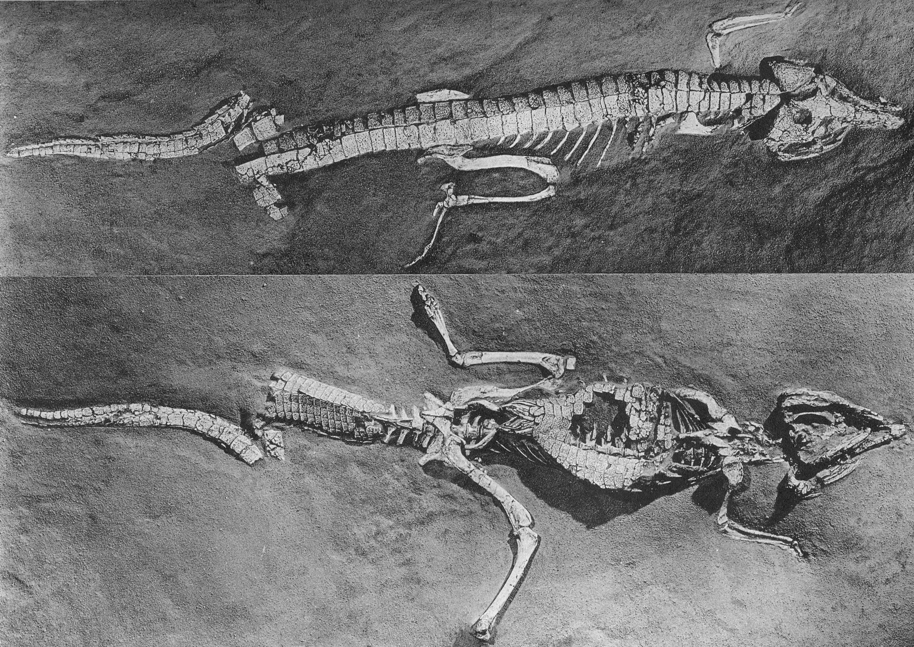 Holotype specimen of Protosuchus richardsoni (BROWN, 1934) (AMNH 3024) in dorsal (top) and ventral (bottom) view, Dinosaur Canyon Sandstone member of the Moenave formation, Upper Triassic of the Colorado Plateau, Arizona, USA.